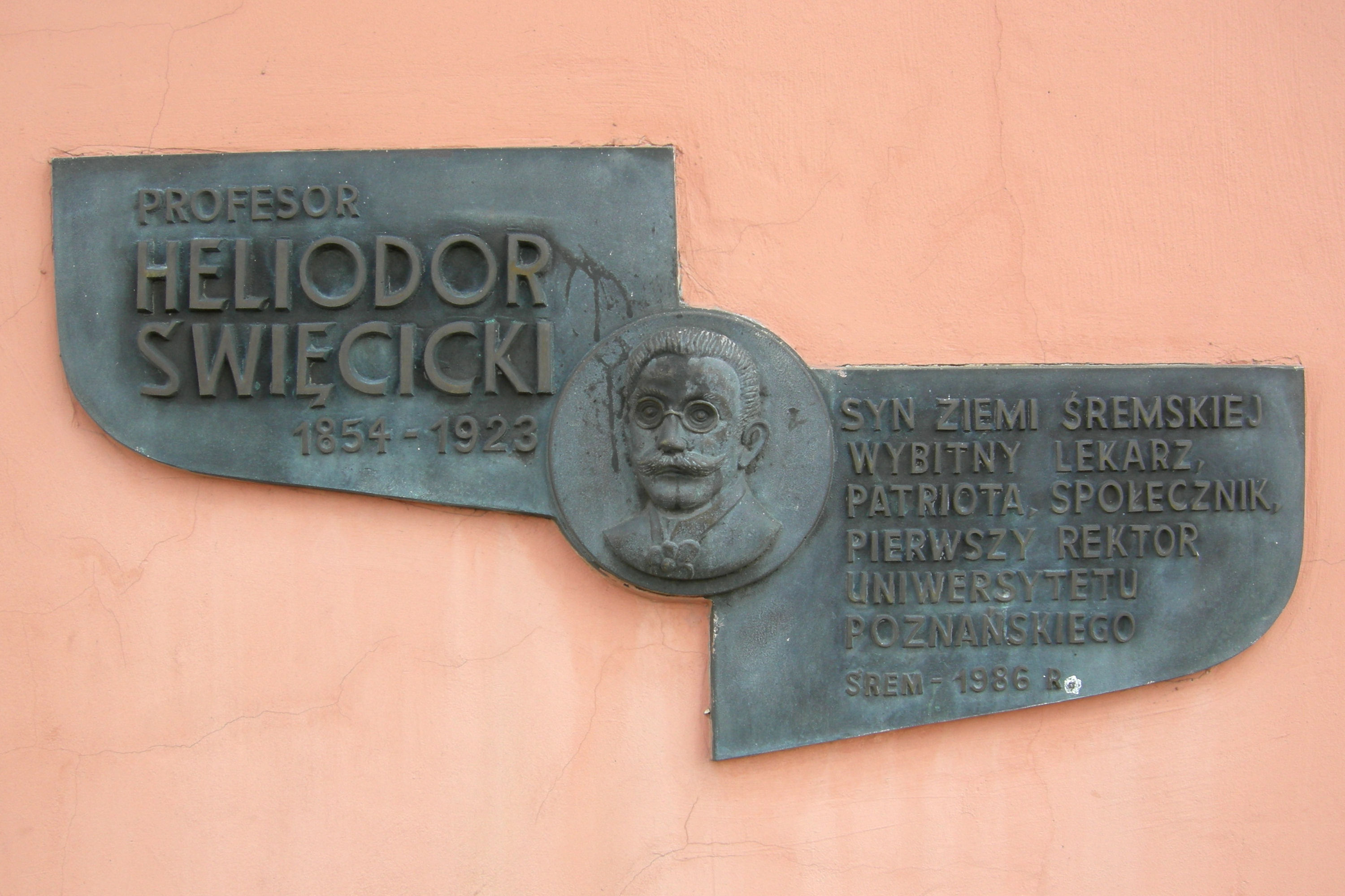 Plaque - Heliodor Święcicki, Śrem, Greater Poland Voivodeship , Poland